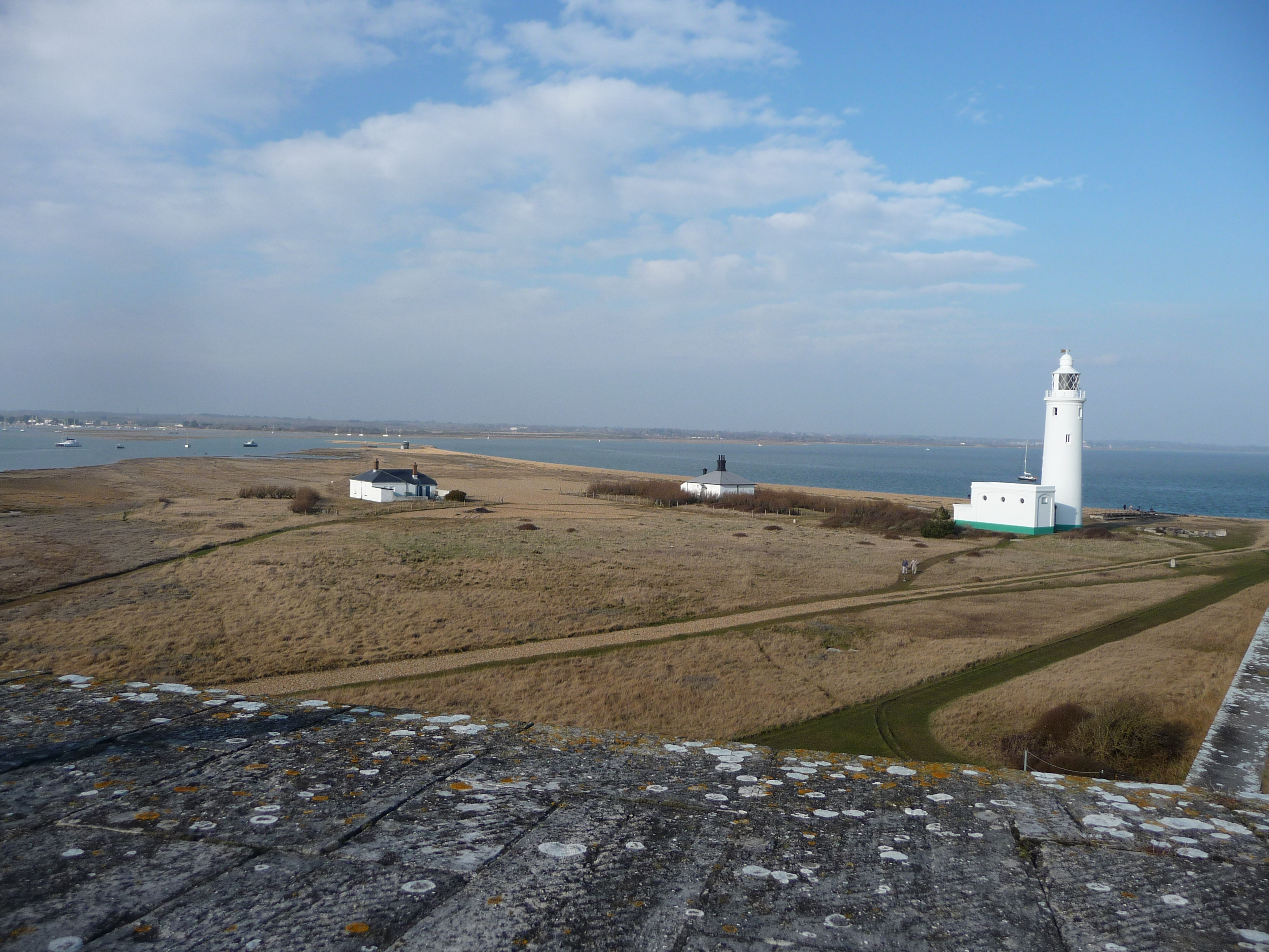 Hurst Castle : Hurst Spit & Lighthouse Looking out across the spit which stretches out to the Solent.